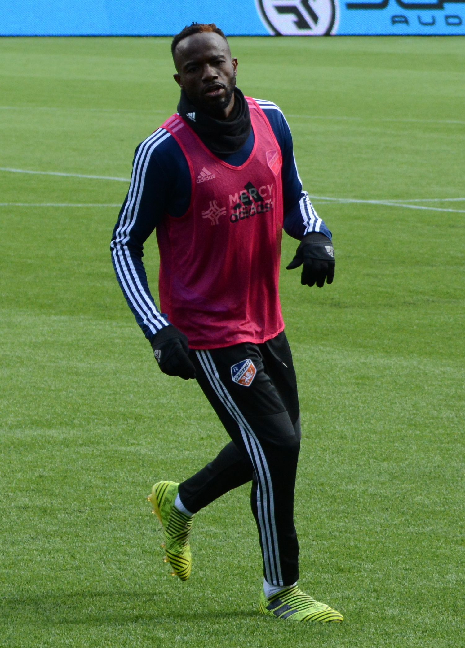 Taken during FC Cincinnati's Major League Soccer regular season home opener match against Portland Timbers at Nippert Stadium in Cincinnati, USA on March 17, 2019.